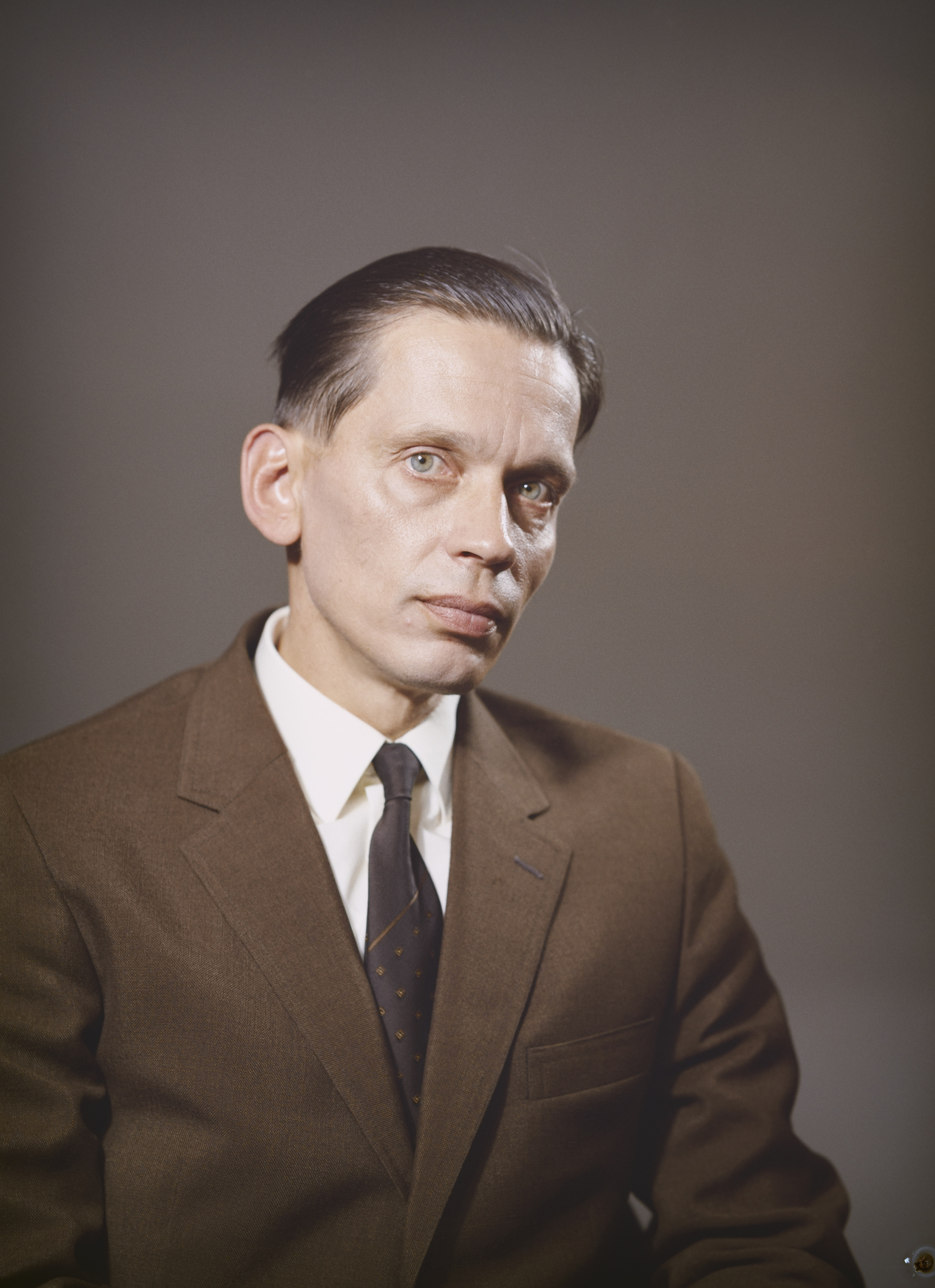 Photograph of the Finnish professor Niilo Ryti (1919–1997).